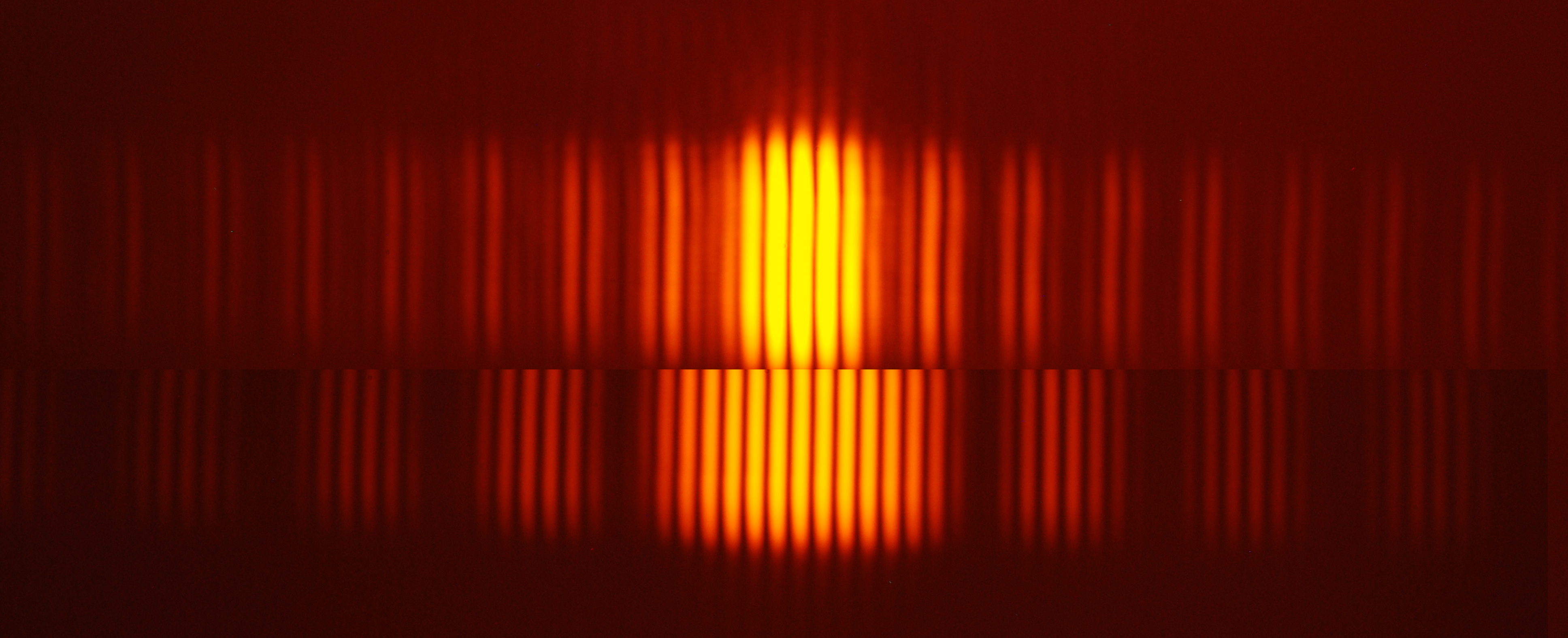 Comparison of two double-slit interference patterns, both with a center-to-center distance of 0.250 mm. The top pattern was produced by 0.08 mm slits, the bottom pattern by 0.04 mm slits. Image made with the open body of a digital camera, approximately 15 cm behind the slits.